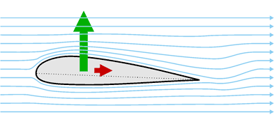 Streamlines around a simple airfoil. Lifting force (green) and drag (red) have only symbolic size. The dotted line is the chord line, current angle of attack is 2.3 degrees. Note: streaming far of wing is straight; the flow is constrained top and bottom, as would be for example in a wind tunnel.